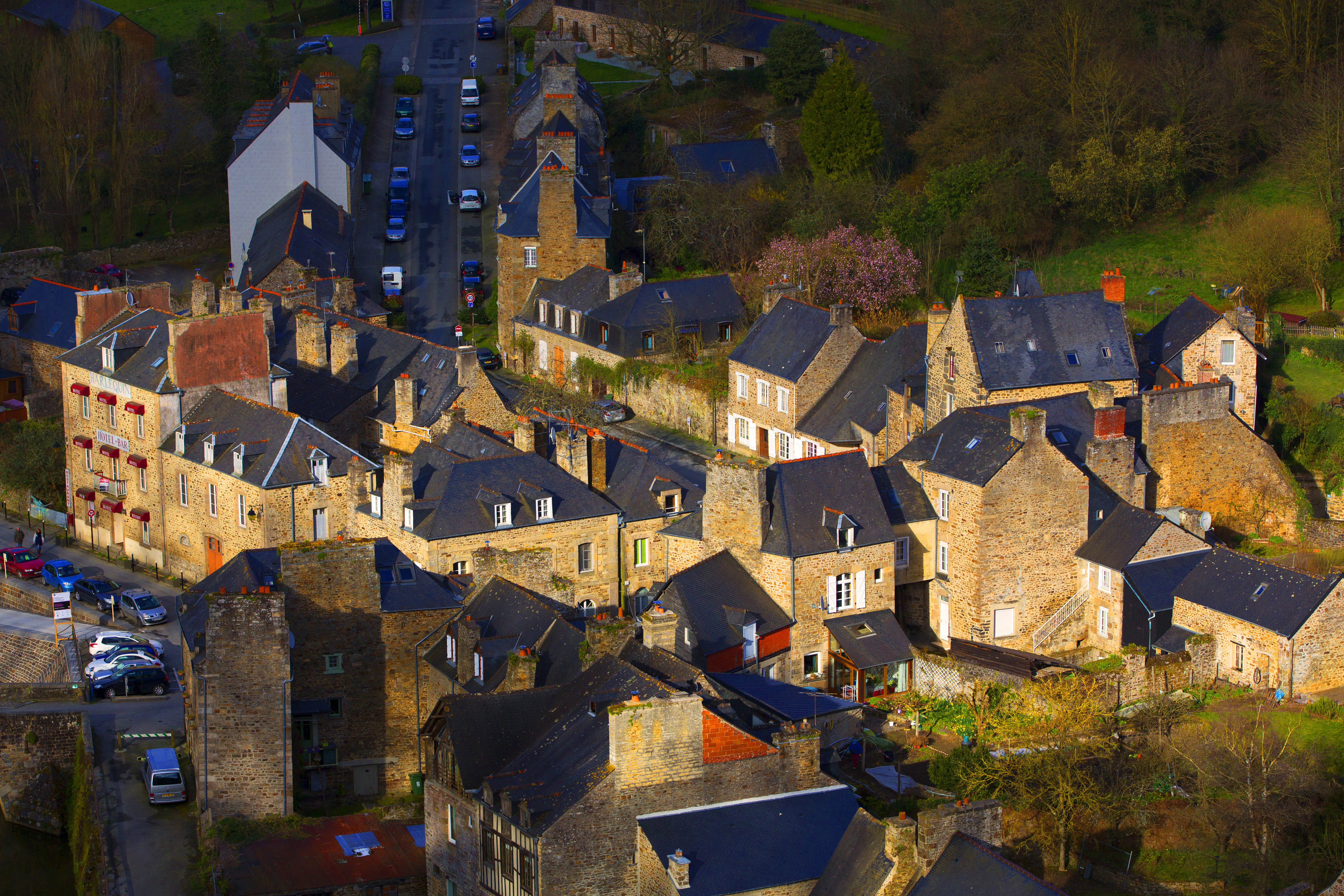 France. View to the lower part of the city of Dinan.